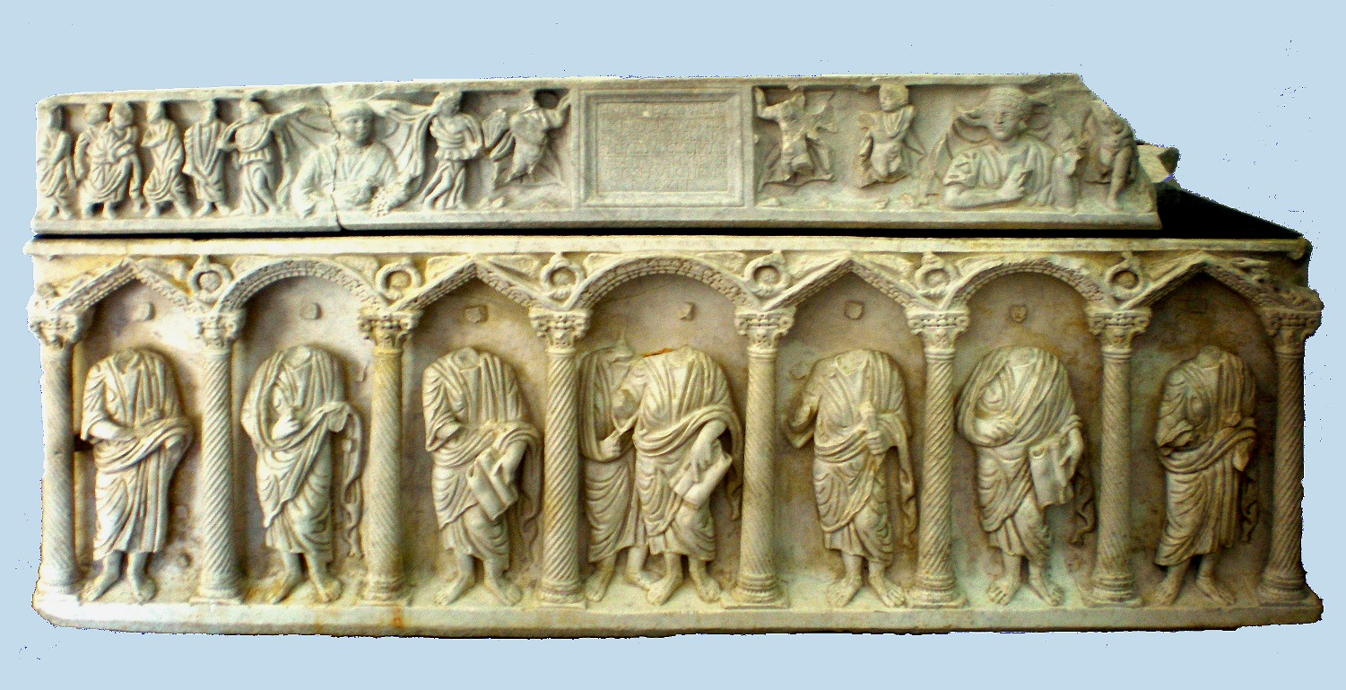 Sarcophagus Hydra Tertulla